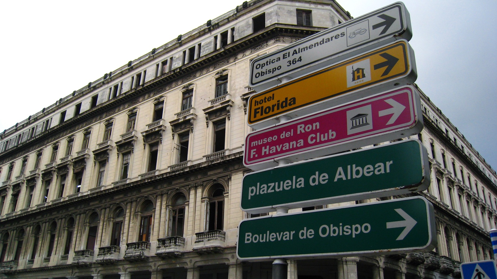 La Manzana de Gomez Mall across Havana's Parque Central